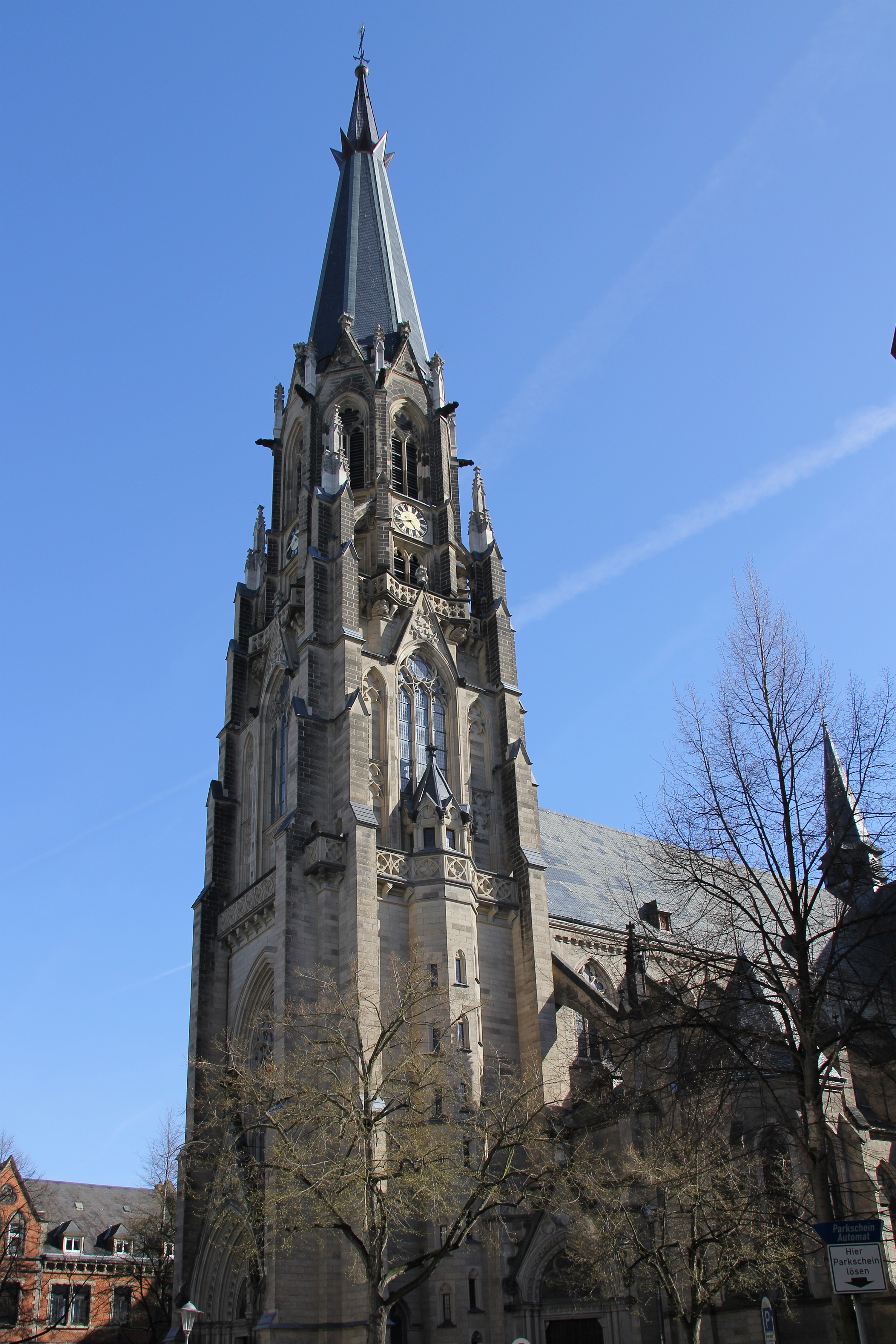 St. Josef church in Koblenz